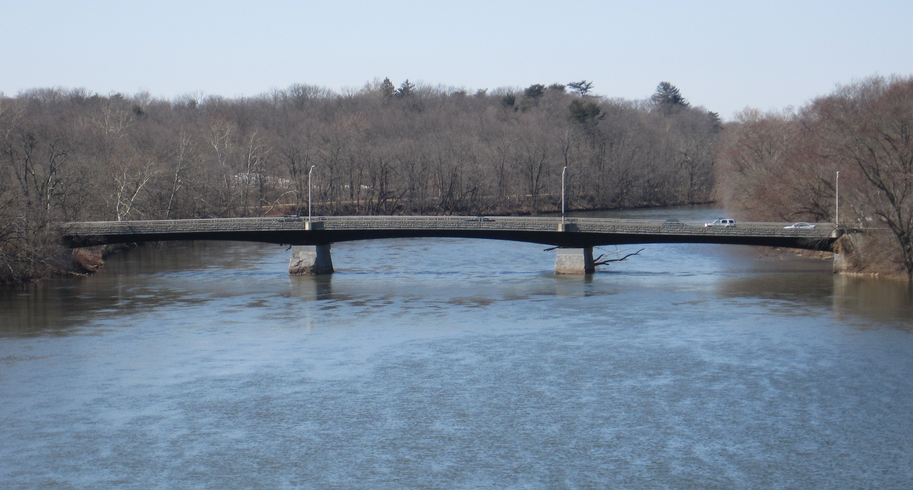 Photo of the Landing Lane Bridge between New Brunswick and Piscataway over the Raritan River. Photo taken on March 7, 2010 from the John A. Lynch looking north.